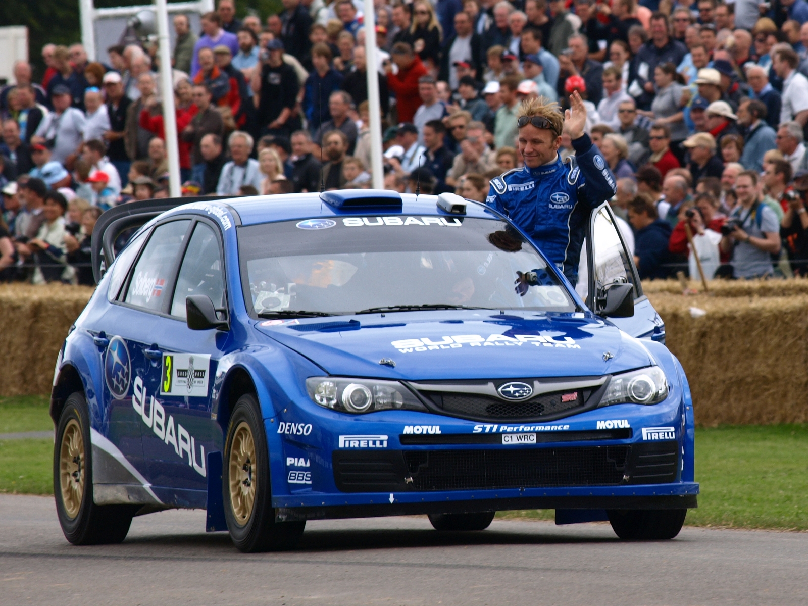 Petter Solberg in a Subaru Impreza WRC2008 at the Goodwood Festival of Speed 2008.